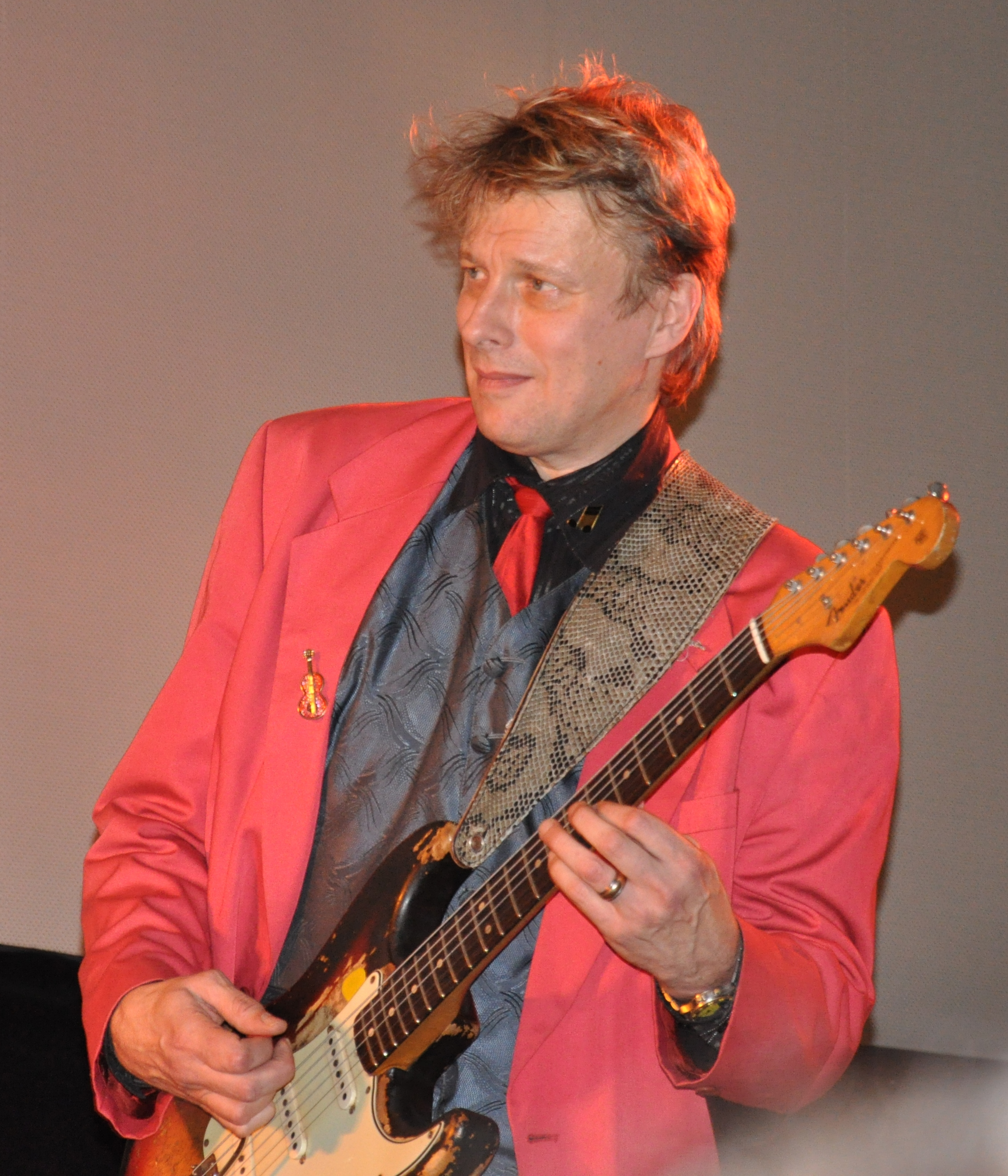 Finnish guitarist Jukka Orma at a gig with Piirpauke in Turku 2009.